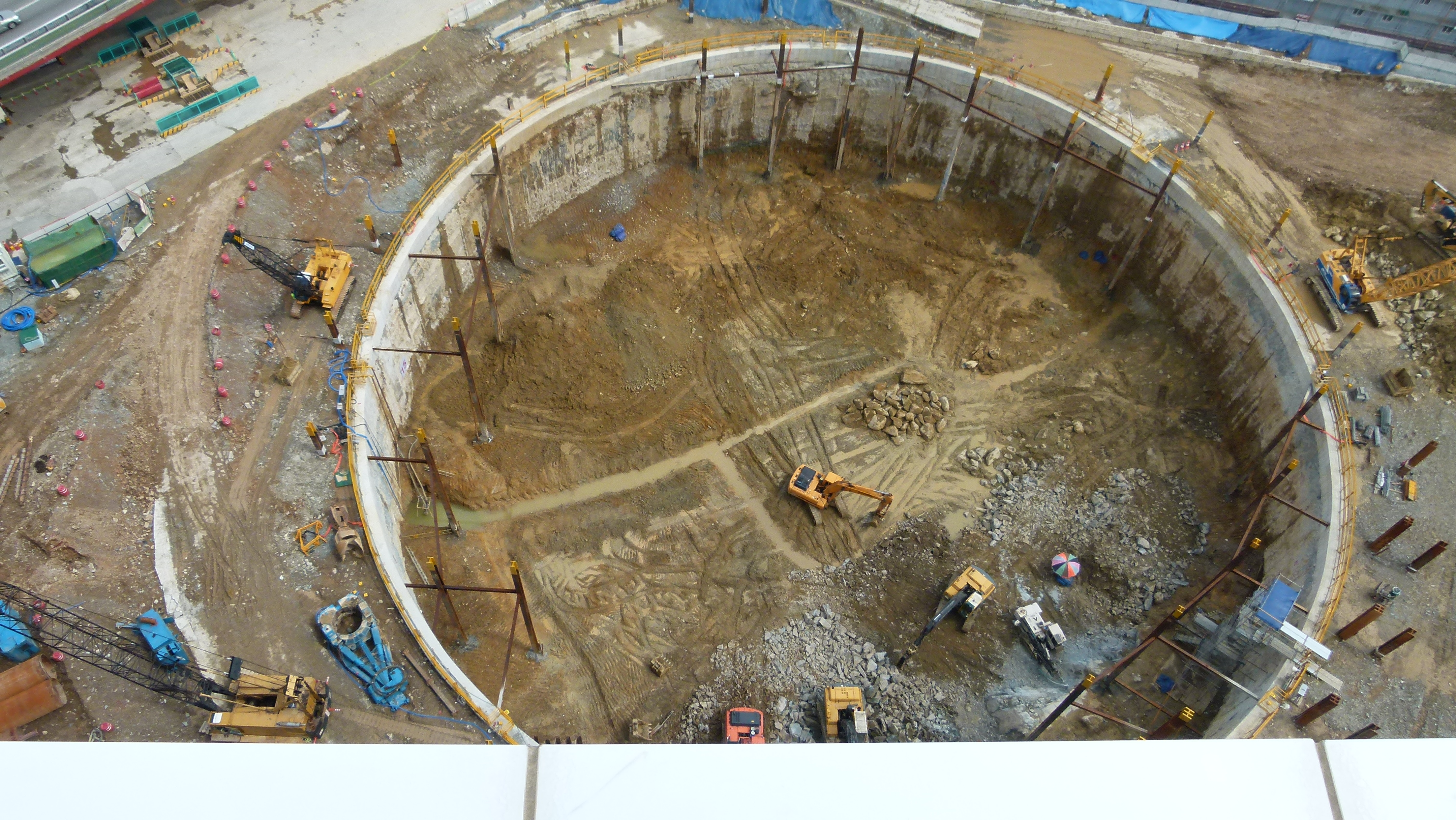 Construction site of Busan Lotte Tower